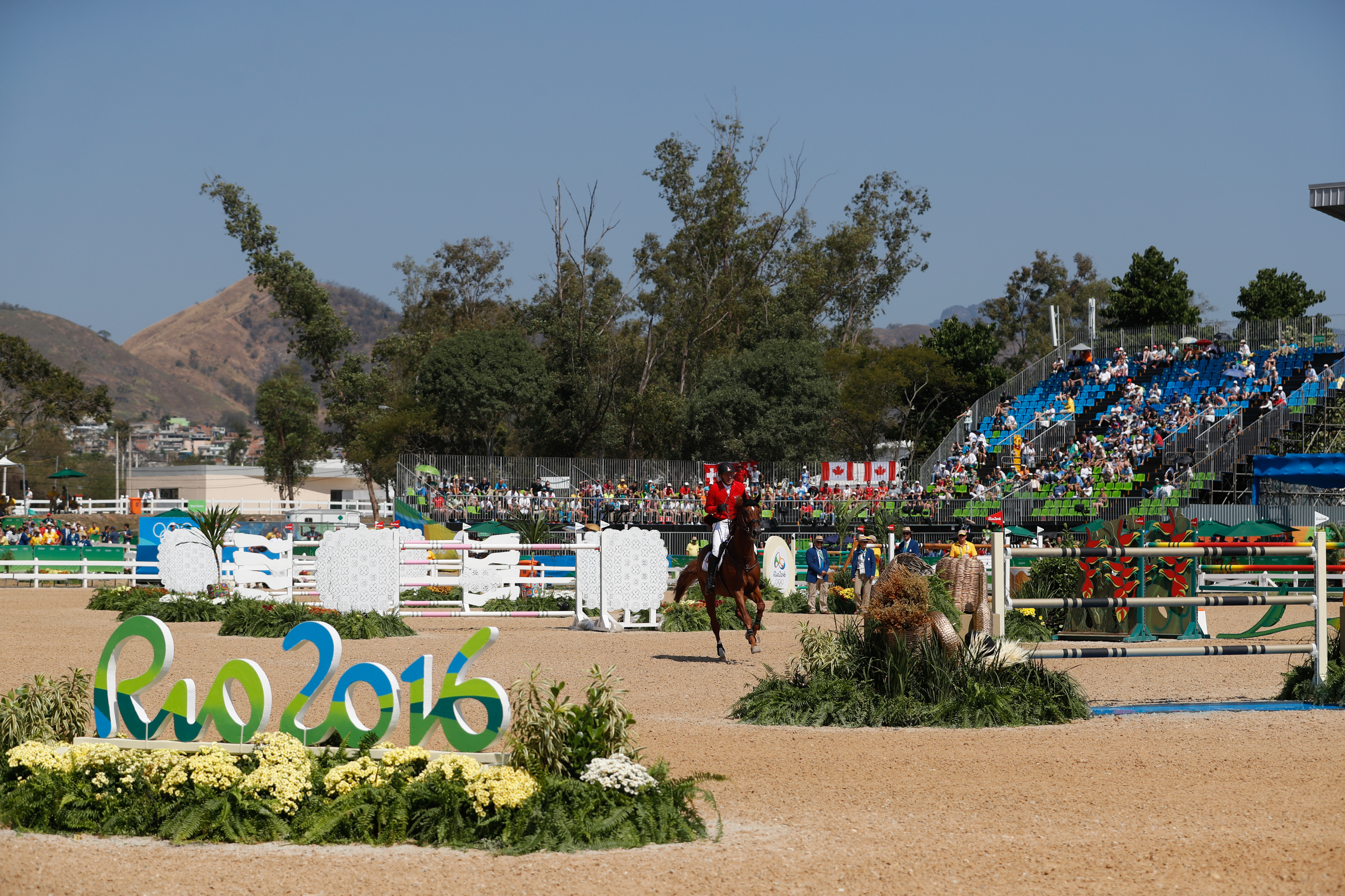 Rio de Janeiro - Cavaleiro alemão Ludger Beerbaum na apresentação de saltos do hipismo em que a equipe terminou com o bronze nos Jogos Olímpicos Rio 2016, em Deodor. ( Fernando Frazão/Agência Brasil)